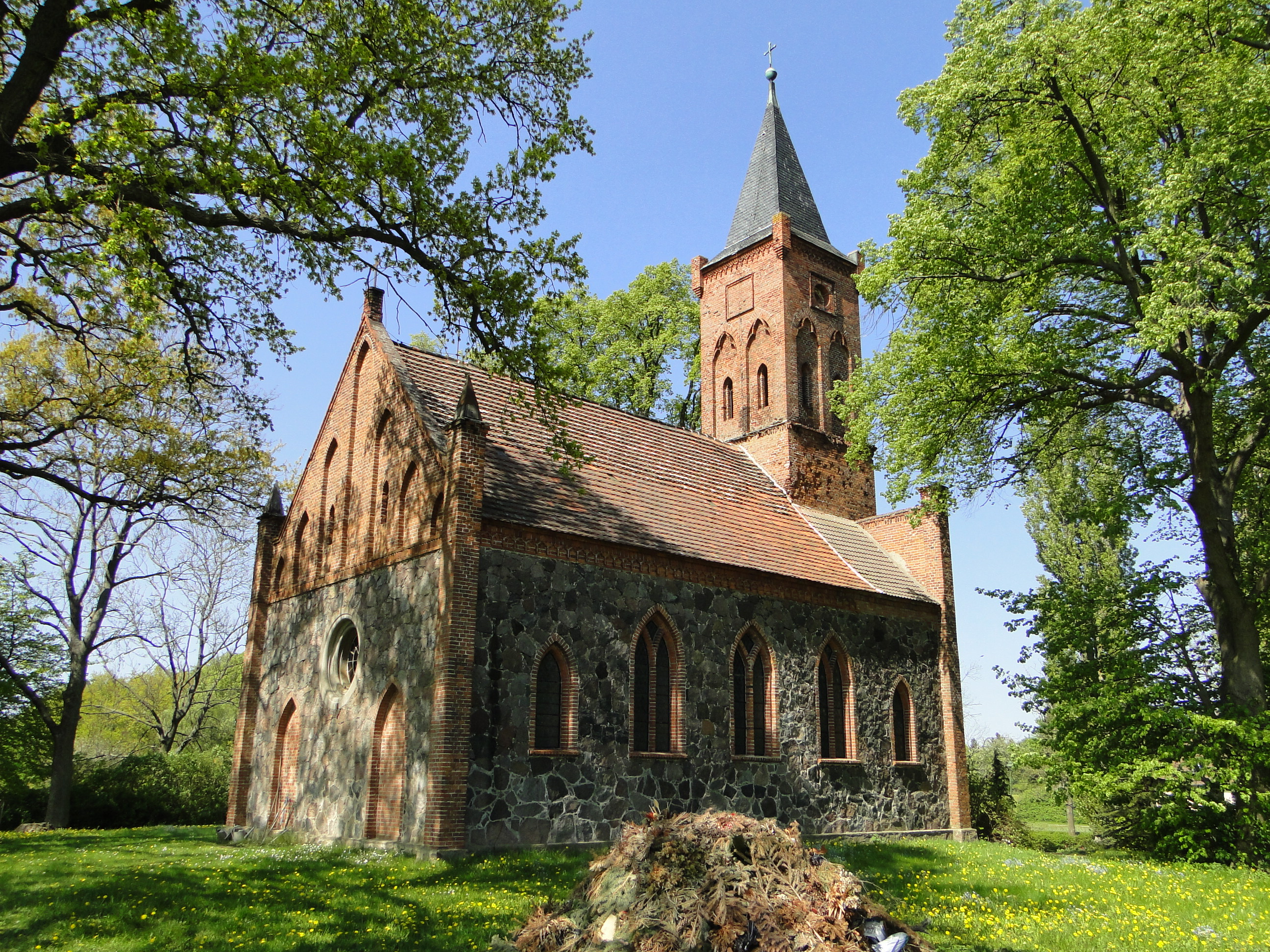 Church in Voigtsdorf, district Mecklenburg-Strelitz, Mecklenburg-Vorpommern, Germany